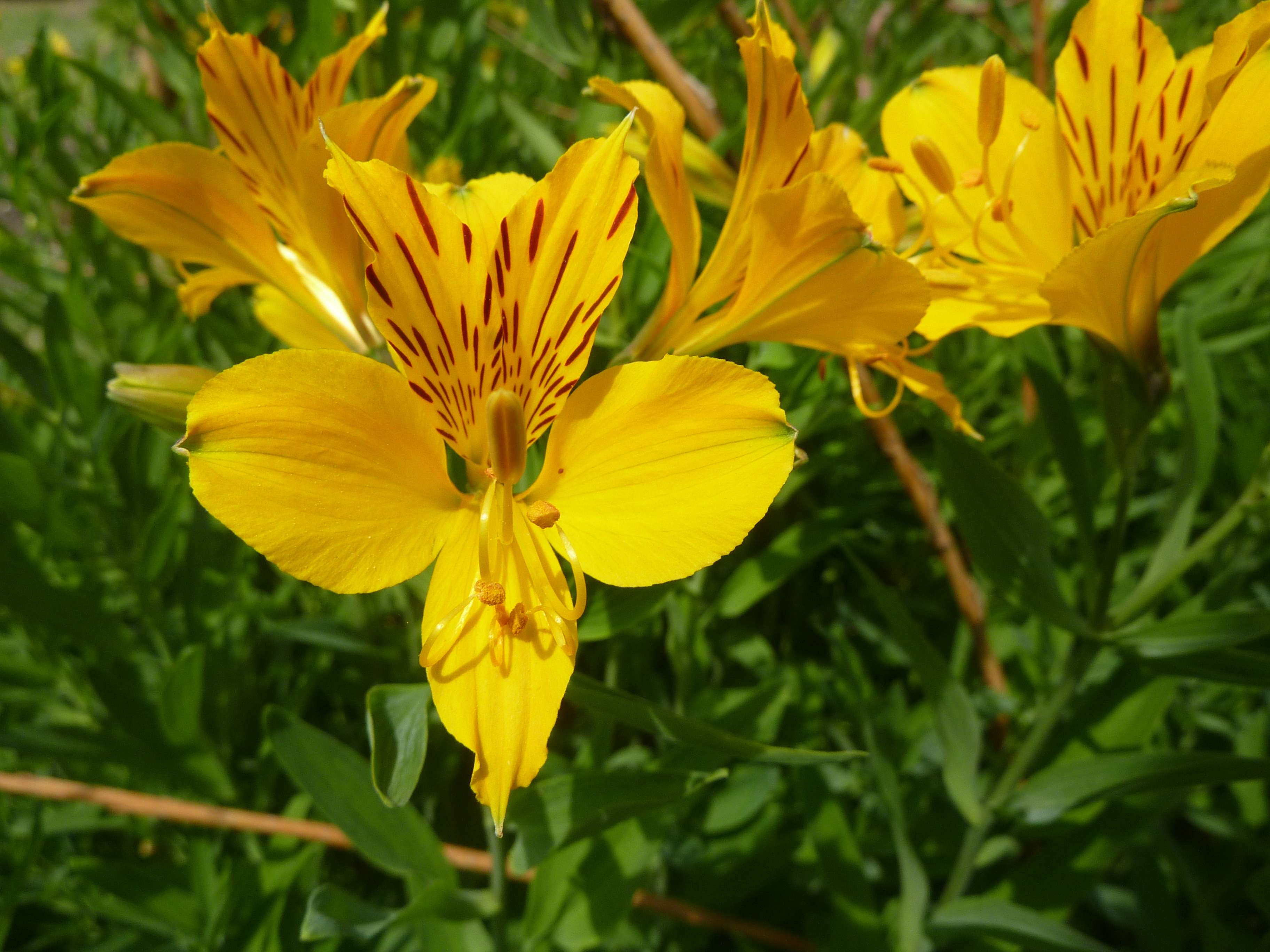 Taken in the Cambridge University Botanic Garden